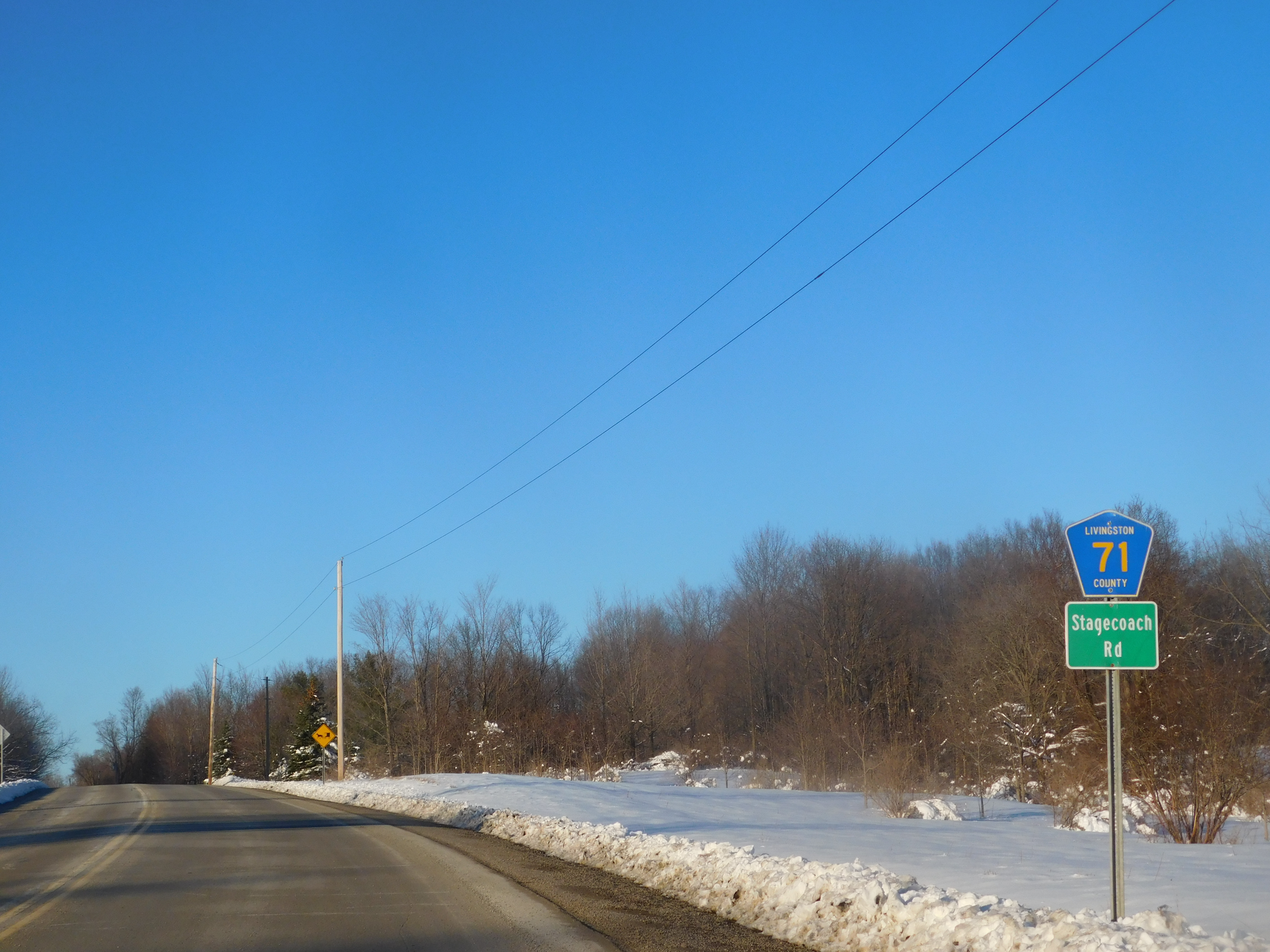 Livingston County Route 71, former NY 255, southbound from NY 256.